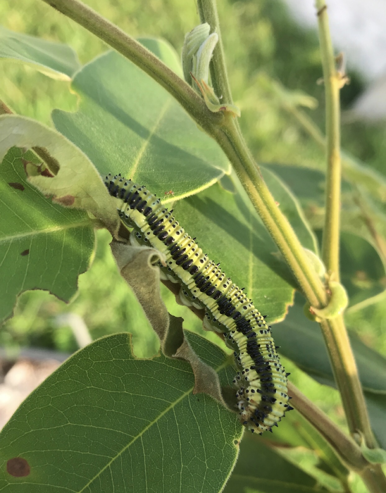 An image of the larvae of an Orange-Barred Sulphur Butterfly (Phoebis Philea) on a host plant of Cassia Bakeriana taken in Miami, Florida on the morning of April 15, 2019.